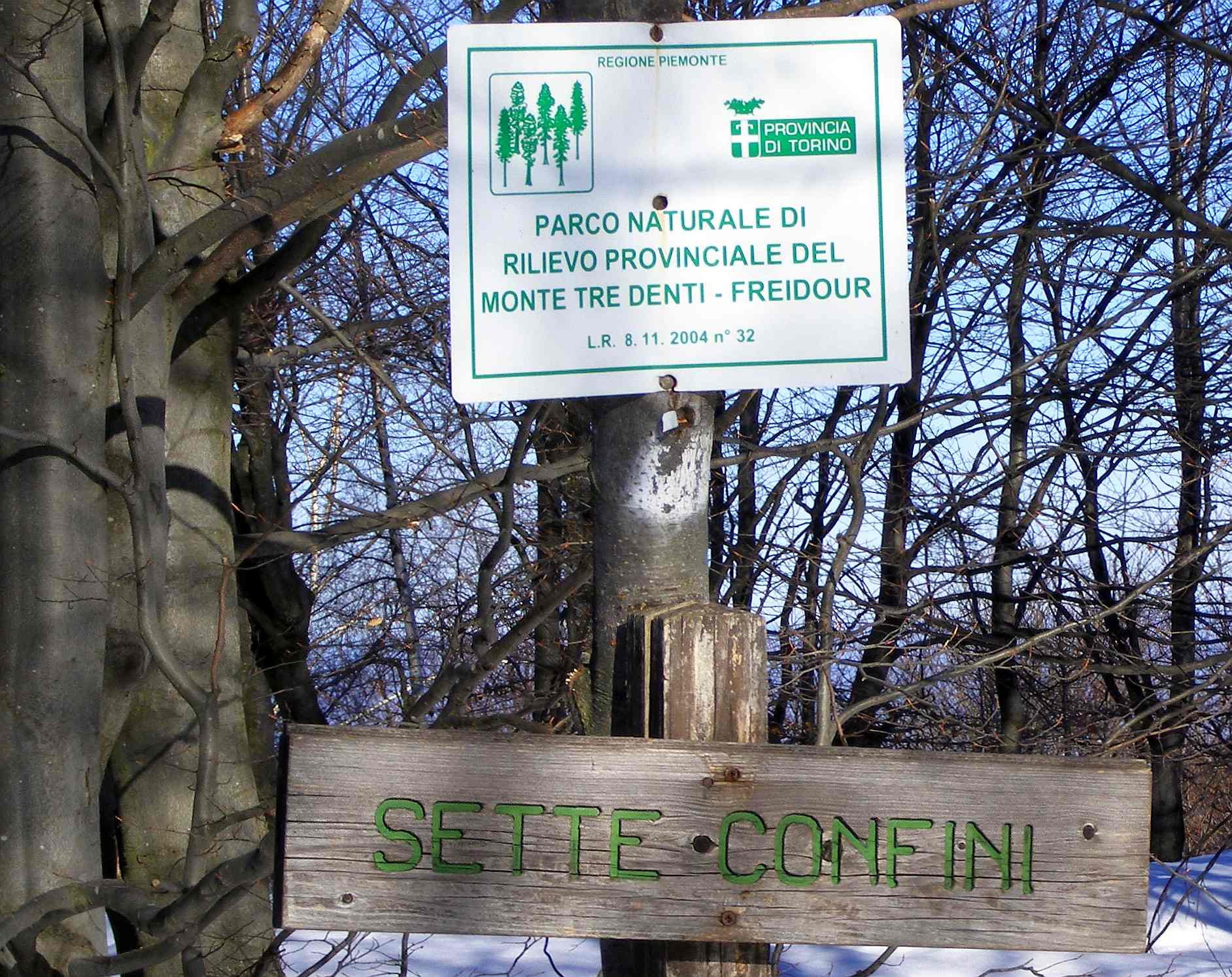 Parco naturale di interesse provinciale del Monte Tre Denti - Freidour, sign on monte Sette Confini